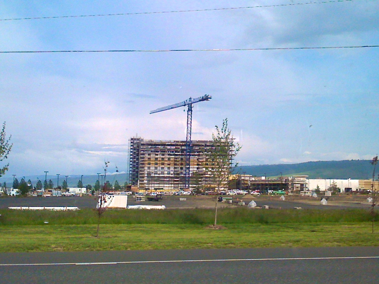 New hotel at Wildhorse Casino, Umatilla Indian Reservation, Oregon. Still under construction